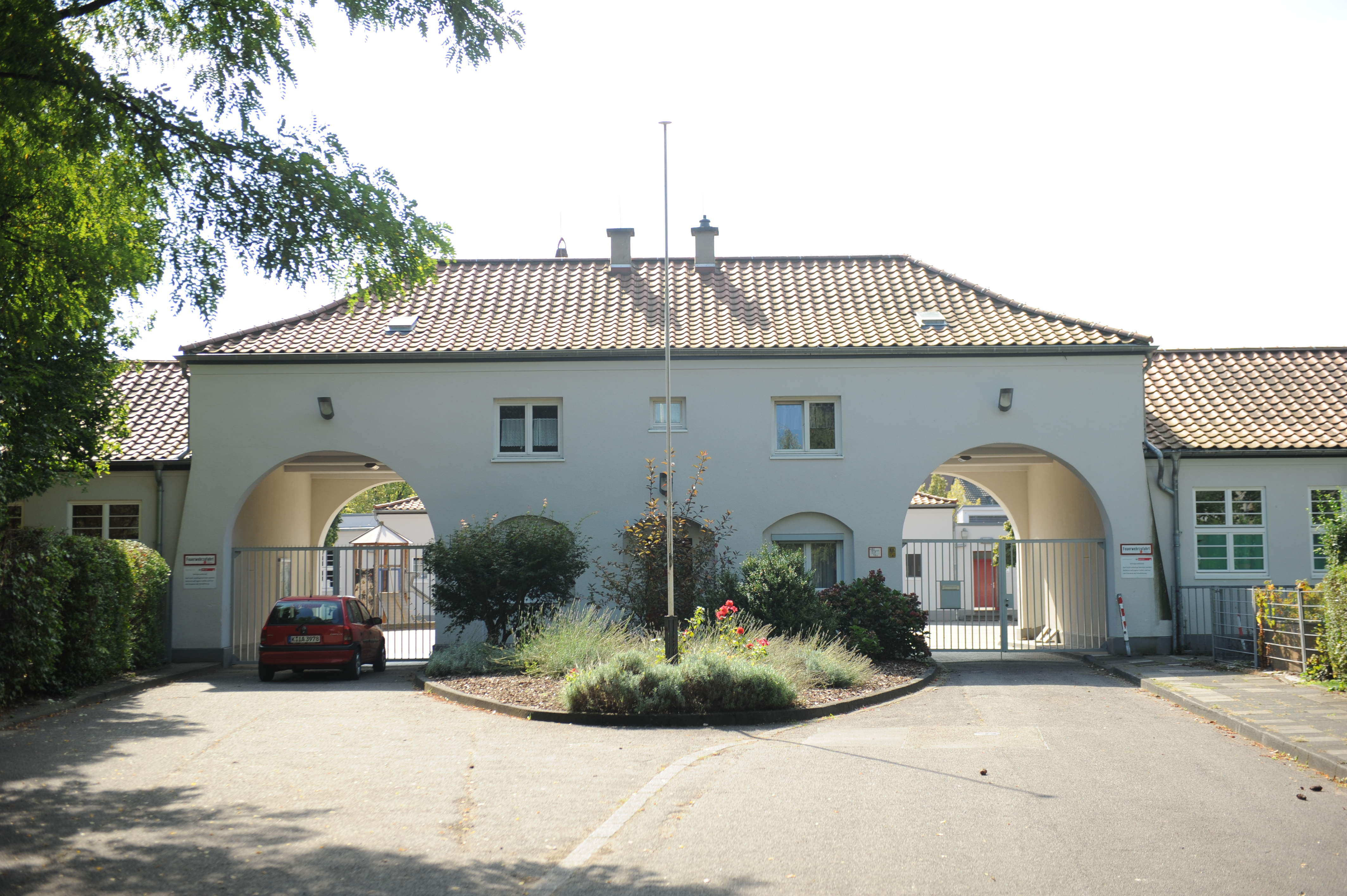 This is a photograph of an architectural monument.